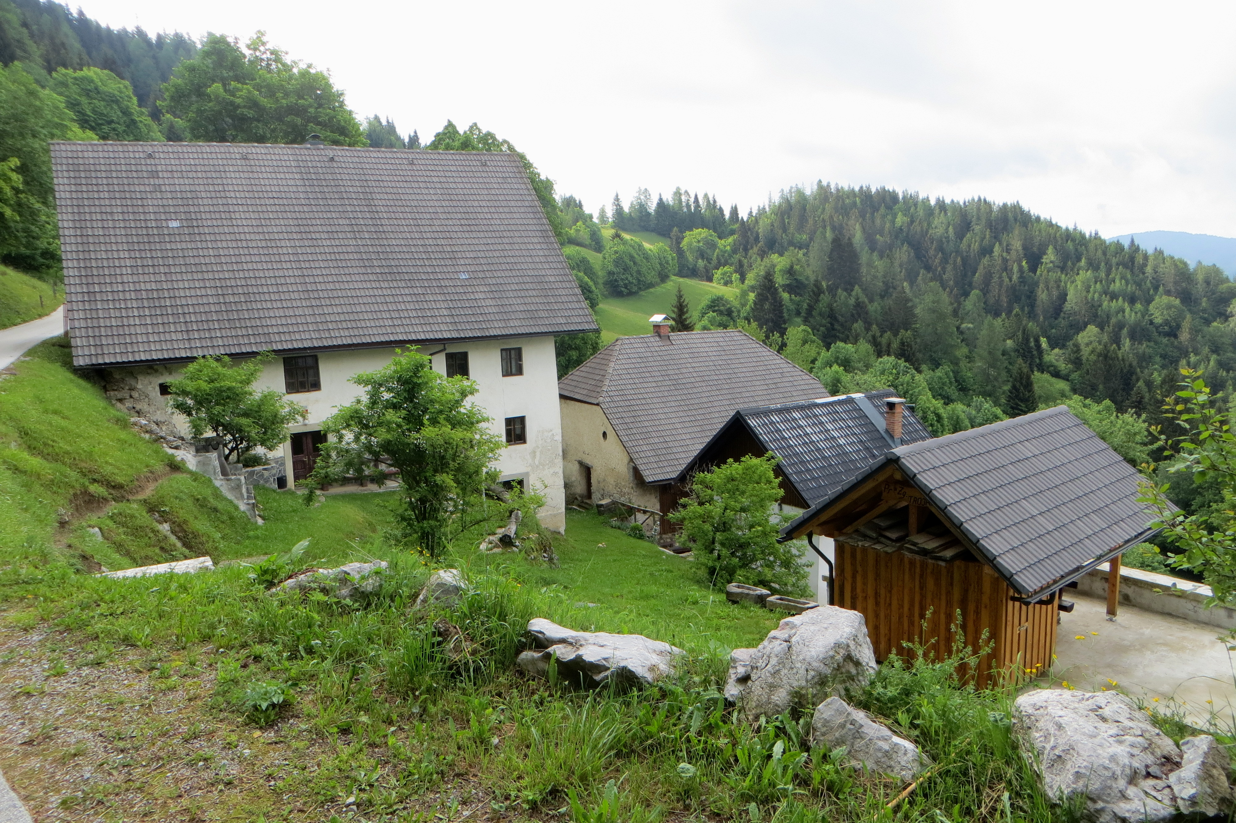 The hamlet of Trojar in Zgornje Danje, Municipality of Železniki, Slovenia